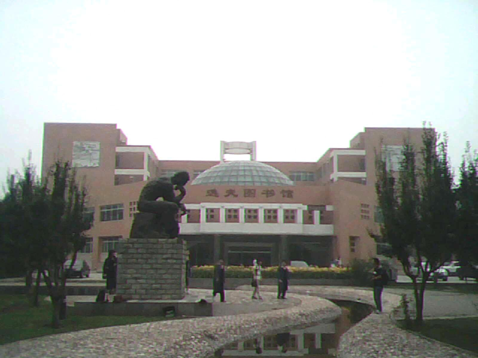 Beijing University of Technology library